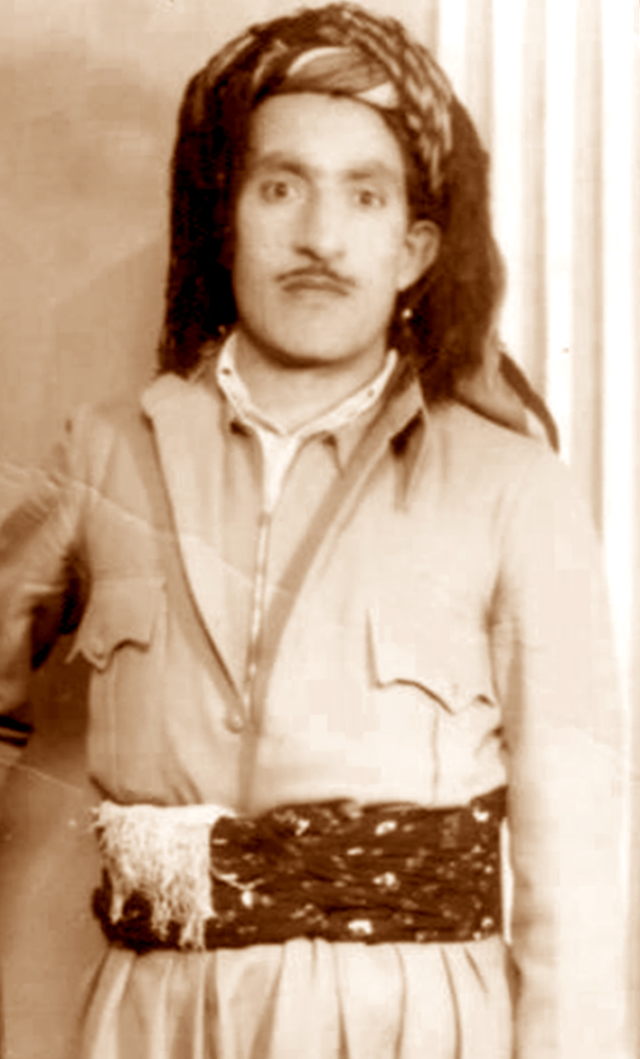 Hassan Zirek (29 November 1921 – 26 June 1972) was a celebrated Iranian Kurdish songwriter-singer from Kurdistan